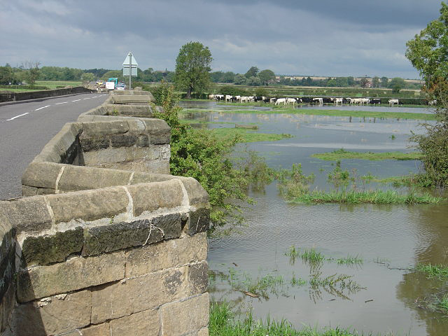 Swarkestone Causeway. The cutwaters of this ancient monument provide a handy refuge for a photographer. The rising waters of the River Trent are having an effect on the livestock.